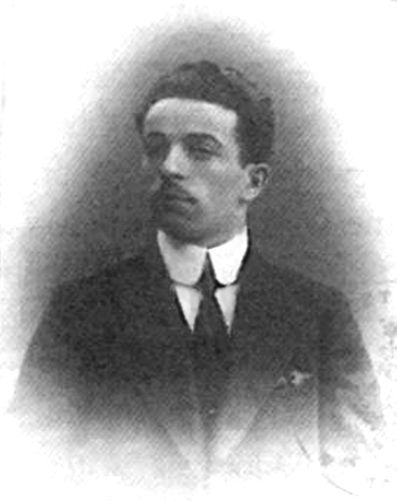 Dr. Berek Lajcher (1893-1943), inmate of the Treblinka extermination camp in occupied Poland, leader of the perilous Jewish prisoner uprising at the camp. Lajcher was killed in the revolt on August 2, 1943 along with most of its participants. Photograph from his university years in Warsaw, published by Roman Weinfeld in Midrasz bi-monthly, 2013.